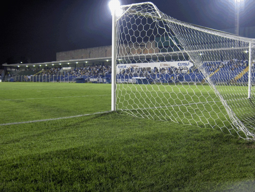 Picture taken by Indech.